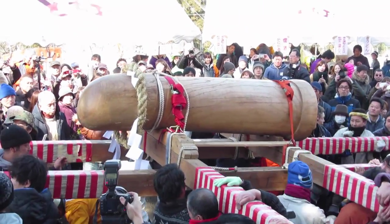 Hodare Festival (Hodare Matsuri), a festival in Tochio, Nagaoka, Niigata Prefecture, Japan